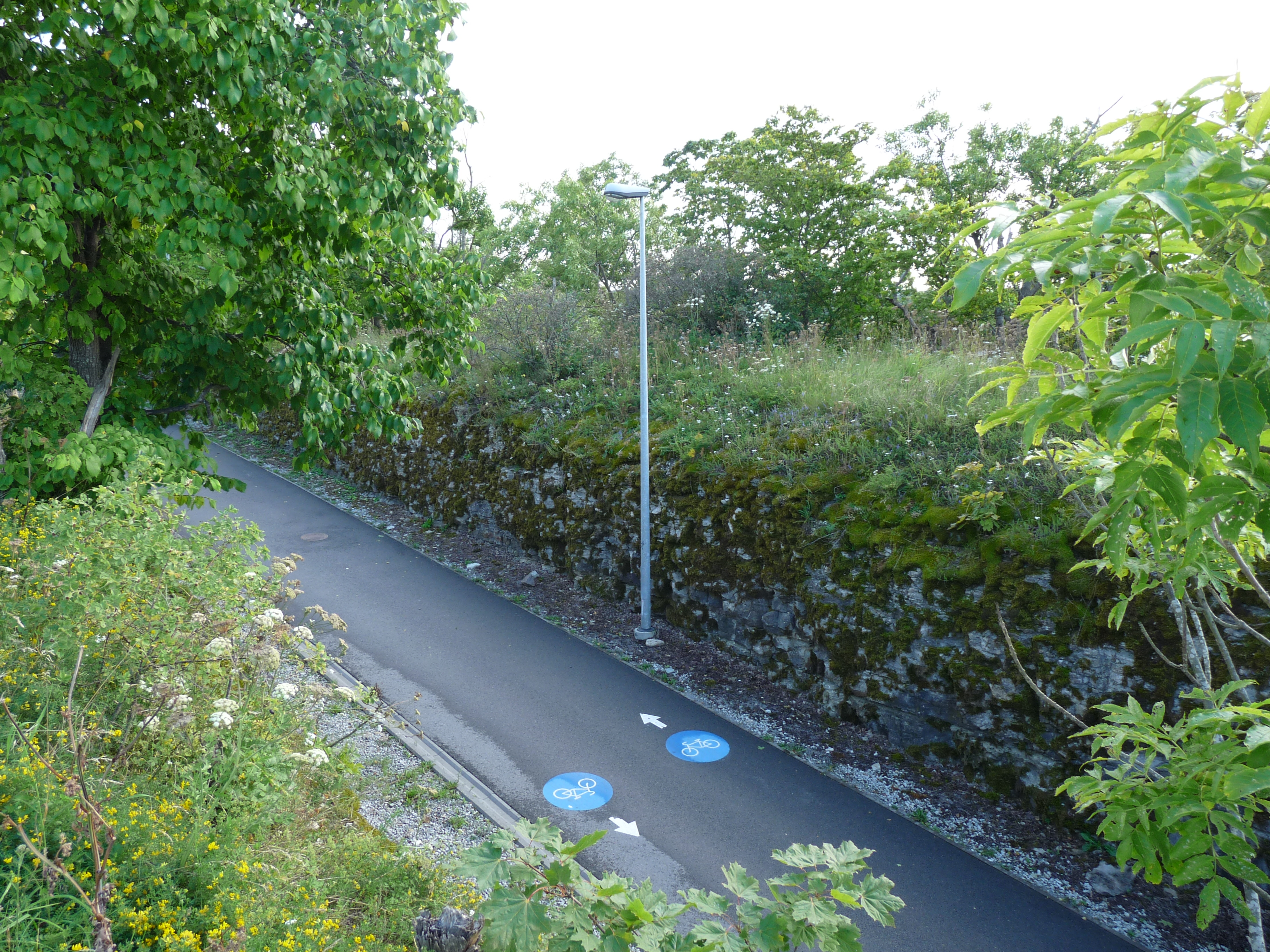 Cycle road between Lasnamäe and Pirita in Tallinn